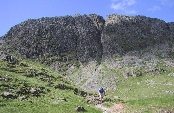 Great End